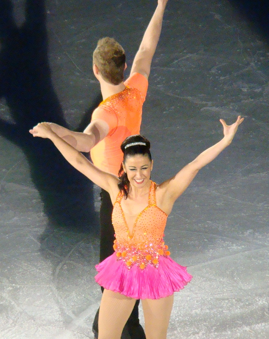 Hayley Tamaddon and Daniel Whiston on the Dancing on Ice tour at the Manchester M.E.N Arena 1.30pm Sunday 1st May 2011.